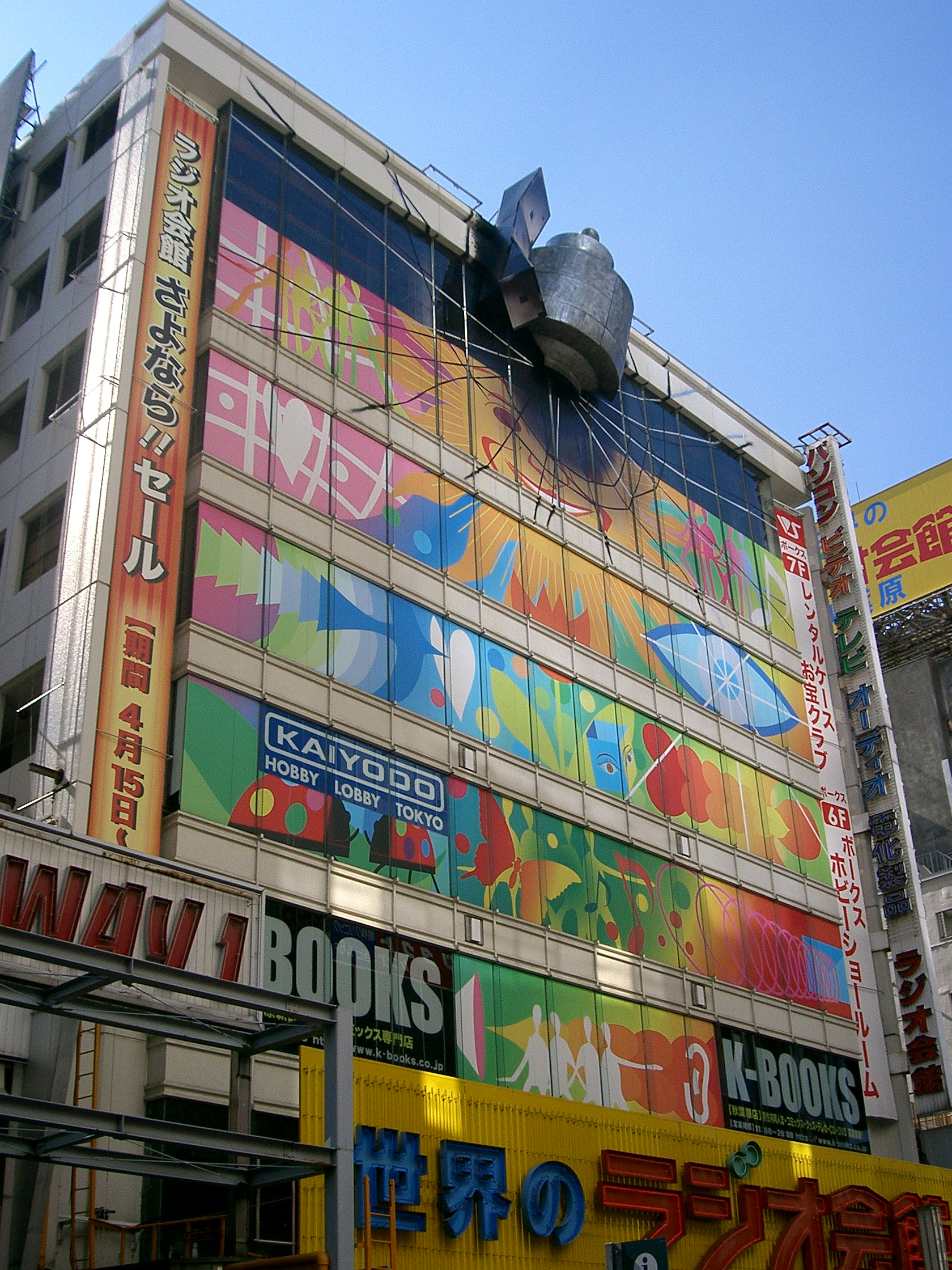 Akihabara Radio Kaikan with representated time machine of Steins;Gate the video game.